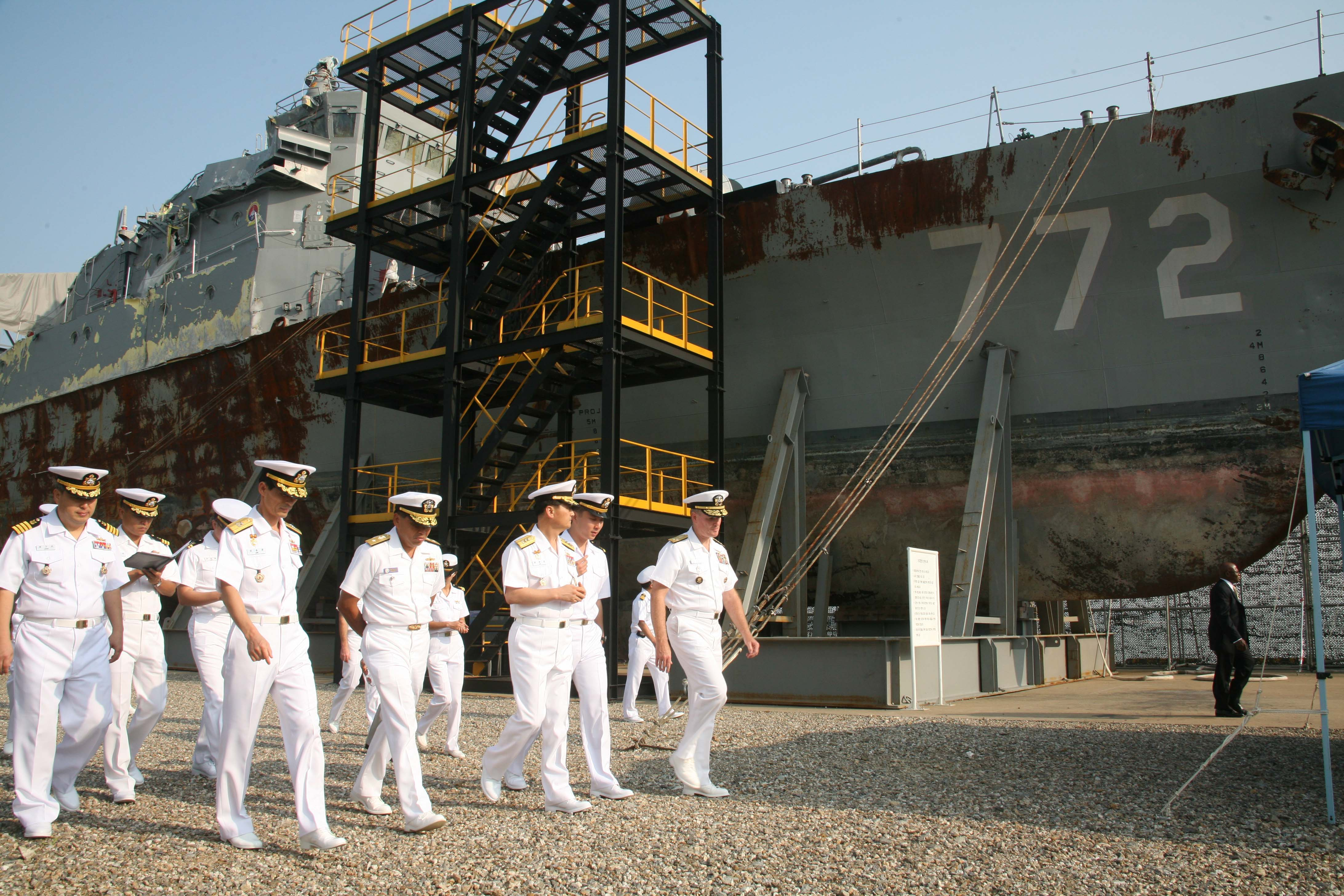 PYEONGTAEK, Republic of Korea (Sept. 13, 2010) Rear Adm. Hyun Sung Um, commander of Republic of Korea (ROK) Navy 2nd Fleet, and Rear Adm. Seung Joon Lee, deputy commander of ROK Navy 2nd Fleet, brief Adm. Patrick M. Walsh, commander of U.S. Pacific Fleet, on the findings of the Joint Investigation Group Report of the ROK Navy corvette ROKS Cheonan (PCC 772). A non-contact homing torpedo or sea-mine exploded near the ship March 26, 2010, sinking it, resulting in the death of 46 ROK Navy sailors. (U.S. Navy photo by Lt. Jared Apollo Burgamy/Released)